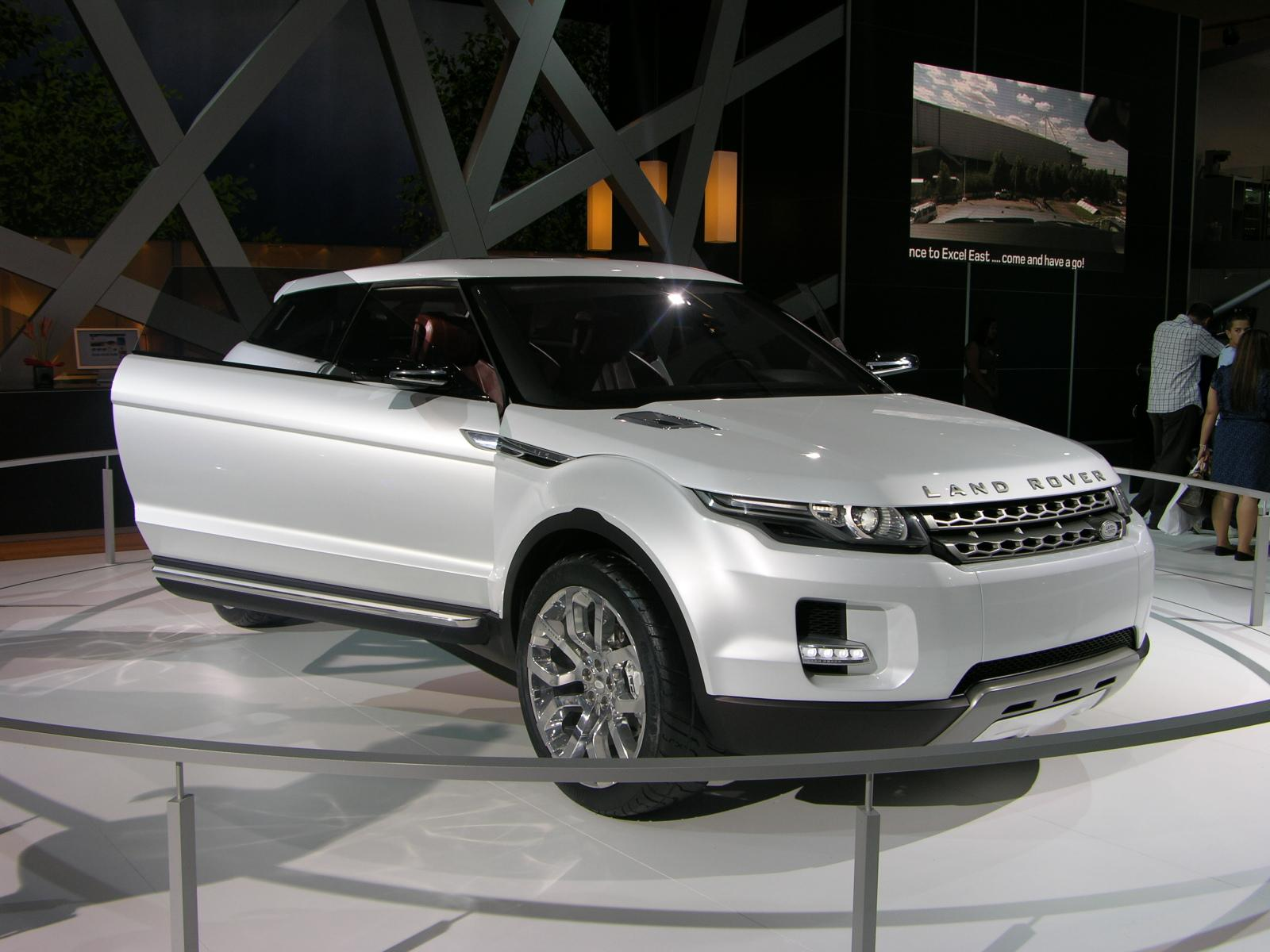 2008 London Motor Show